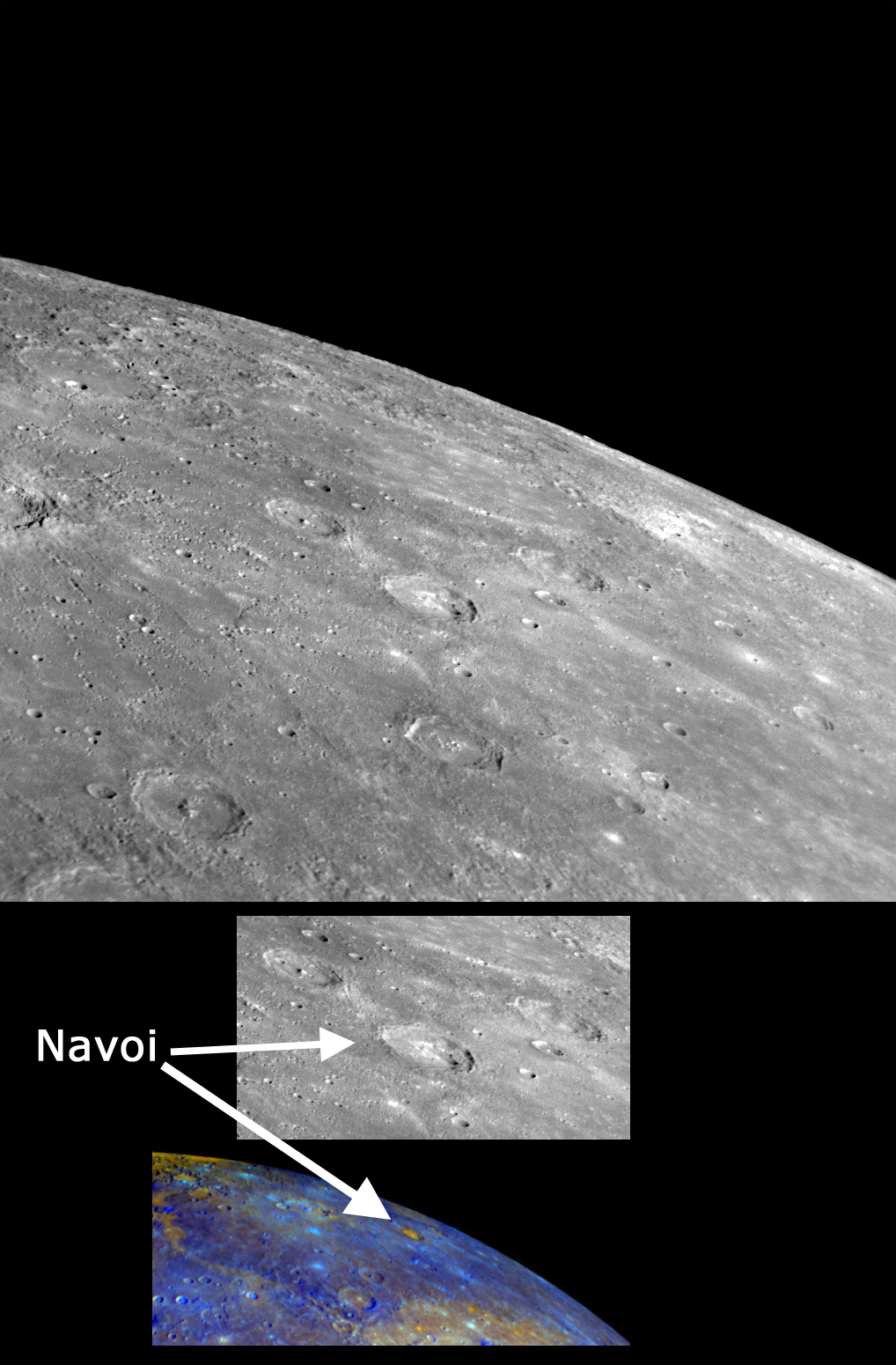 Date Acquired: January 14, 2008 Image Mission Elapsed Time (MET): 108828804 Instrument: Narrow Angle Camera (NAC) of the Mercury Dual Imaging System (MDIS) Resolution: 550 meters/pixel (0.34 miles) Scale: Navoi is 66 kilometers (41 miles) in diameter Spacecraft Altitude: 21,700 kilometers (13,500 miles) Of Interest: At the center of this NAC image is the crater Navoi, named in November 2008 for the Uzbek poet Alisher Navoi (1441-1501). Located in the far north of Mercury’s northern hemisphere, Navoi can be seen clearly as a bright orange feature near the top of a previously released enhanced-color Wide Angle Camera (WAC) image of the Caloris basin (part of which is shown in this release). As seen in that color WAC image, Navoi contains uncommon reddish material that indicates a different rock composition from its surroundings. In the high-resolution NAC image shown here, Navoi also appears to have an irregularly shaped depression in its center. Such depressions have been seen elsewhere on Mercury, including within Praxiteles crater, and may indicate past volcanic activity. Credit: NASA/Johns Hopkins University Applied Physics Laboratory/Carnegie Institution of Washington